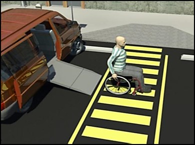 Graphic depiction of wheelchair users using a van accessible parking space.